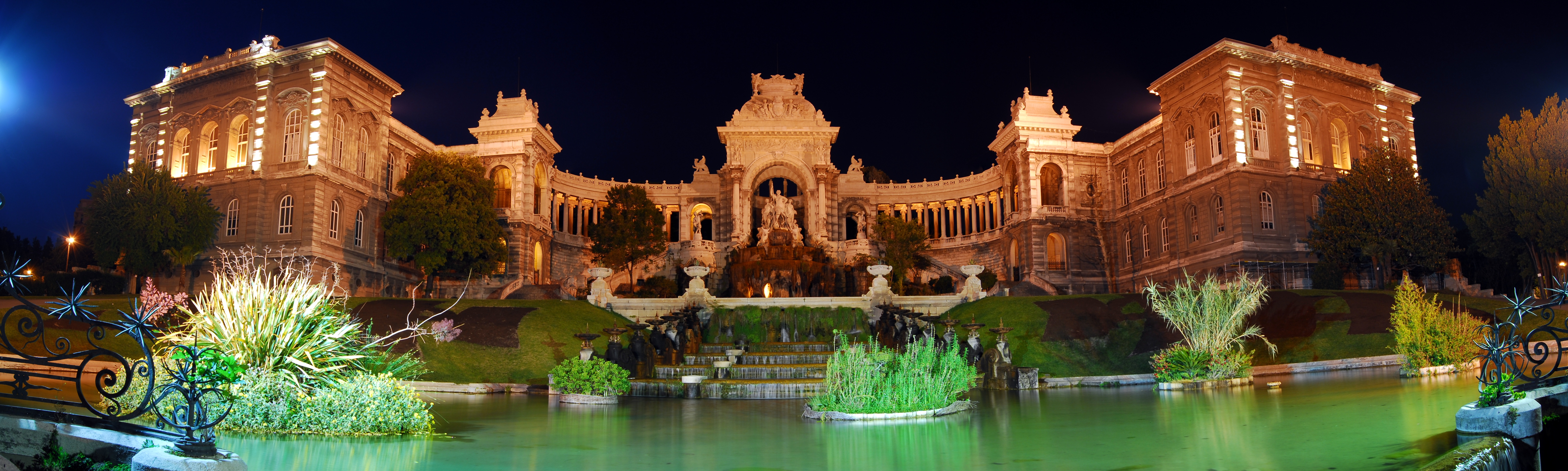 The Palais Longchamp in Marseille, France, at night. Panorama stitched from 3 seperate images.